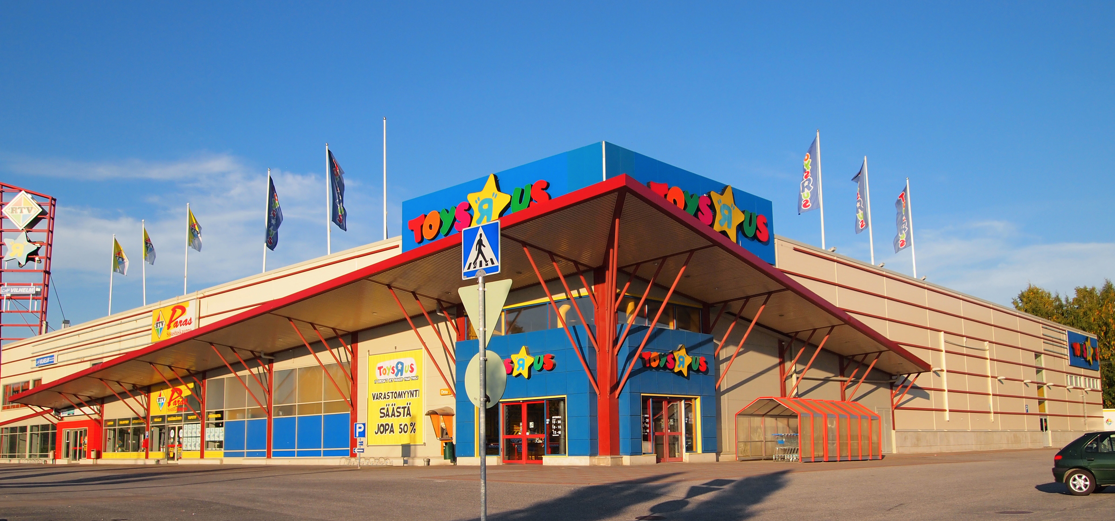 Toys R Us store in Jyväskylä, Finland. This photograph was taken with an Olympus E-PL1.